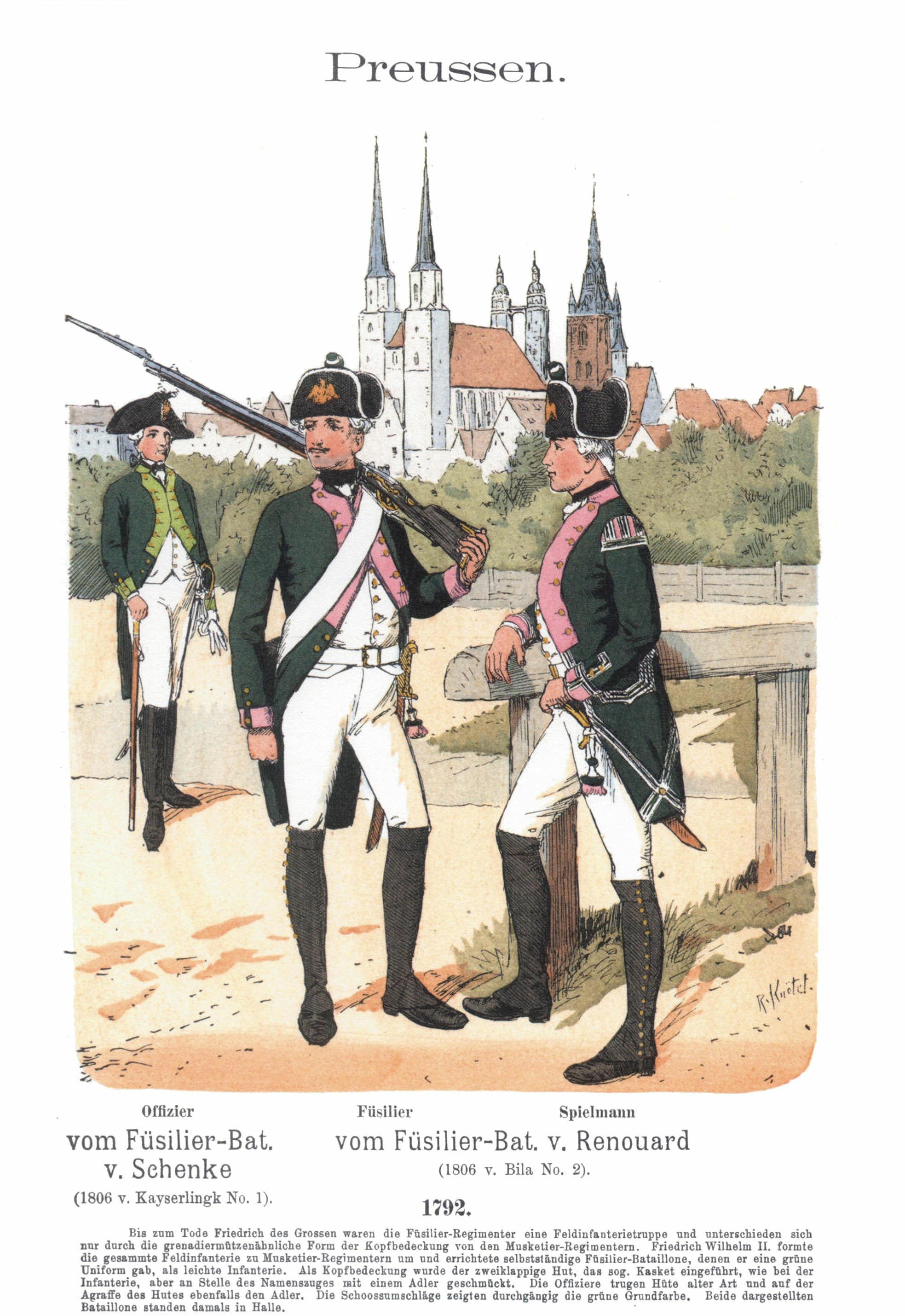 Prussian fusiliers in 1792 by Richard Knötel (1857-1914)